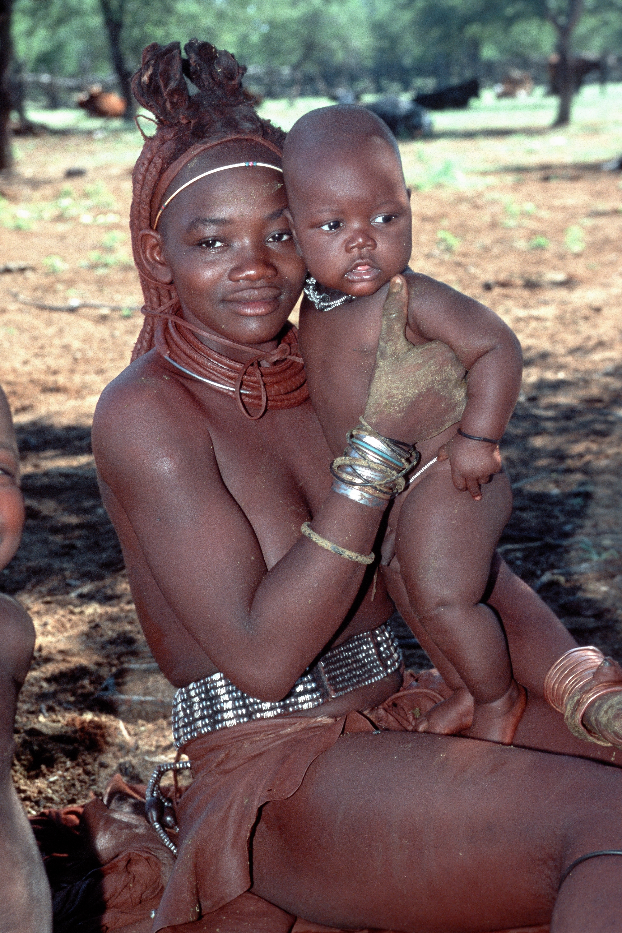 Proud Himba mother